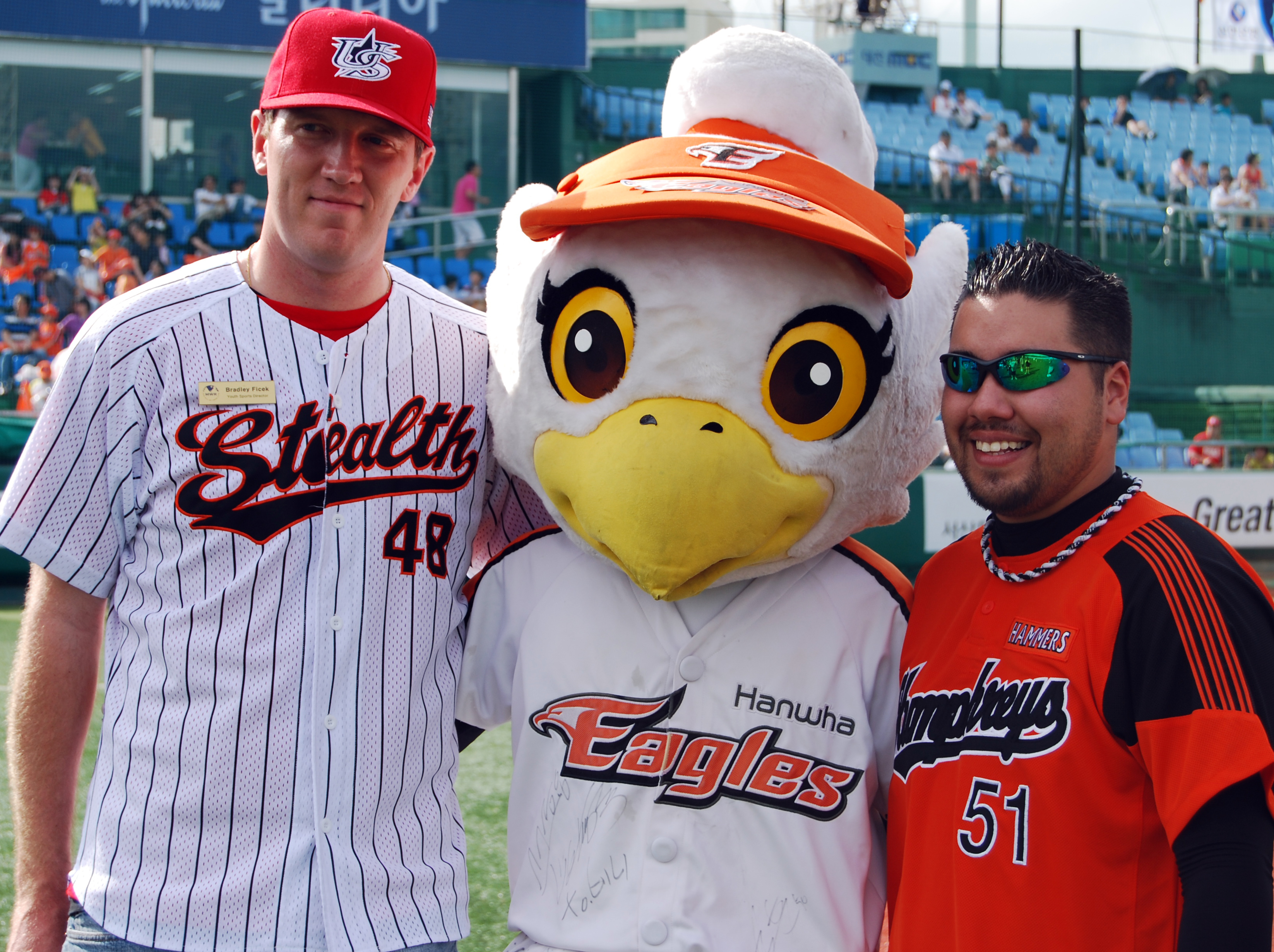 DAEJEON – About 100 members of the Humphreys Garrison traveled here to watch the Korean Professional Baseball League’s Hanwha Eagles play against the LG Twins at Daejeon Baseball Stadium, June 26. For many attendees, the game gave them a unique cultural experience and an entertaining afternoon. Prior to the game, the Humphreys community was invited by the Eagles to come onto the field. They played catch, threw a Frisbee around, and took pictures with the Eagles mascots and some players. U.S. Army photos by Jessica Ryan For more information on U.S. Army Garrison Humphreys and living and working in Korea visit: USAG-Humphreys' official web site or check out our online videos.